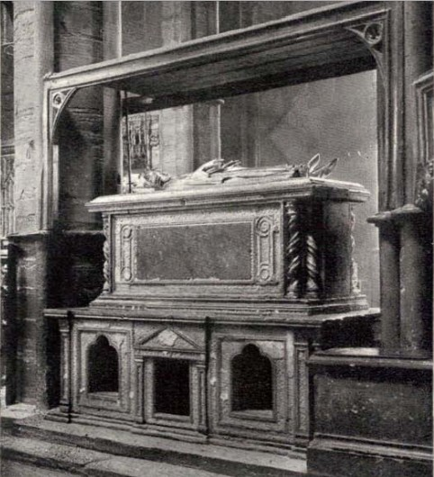 Monument to Henry III of England in Westminster Abbey